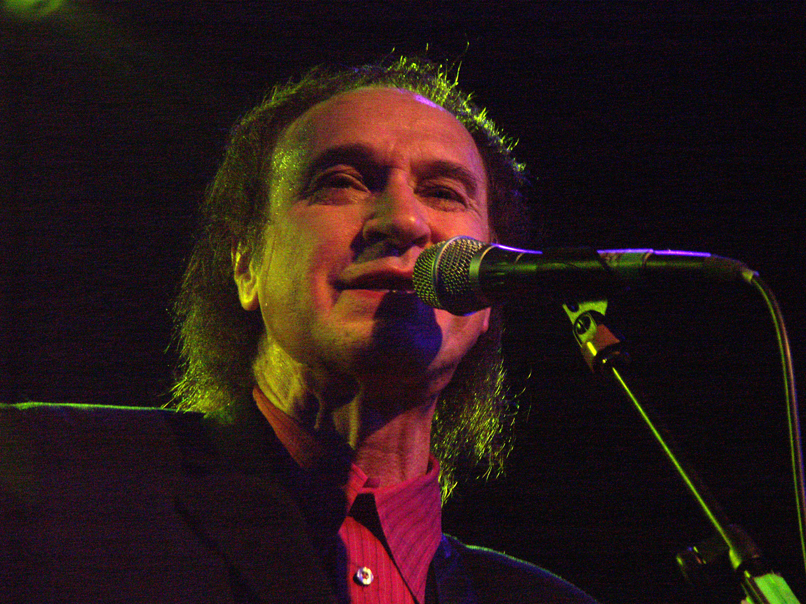 Ray Davies "Other People's Lives" tour Commodore Ballroom, Vancouver, BC July 9, 2006 - Digital Frame 5